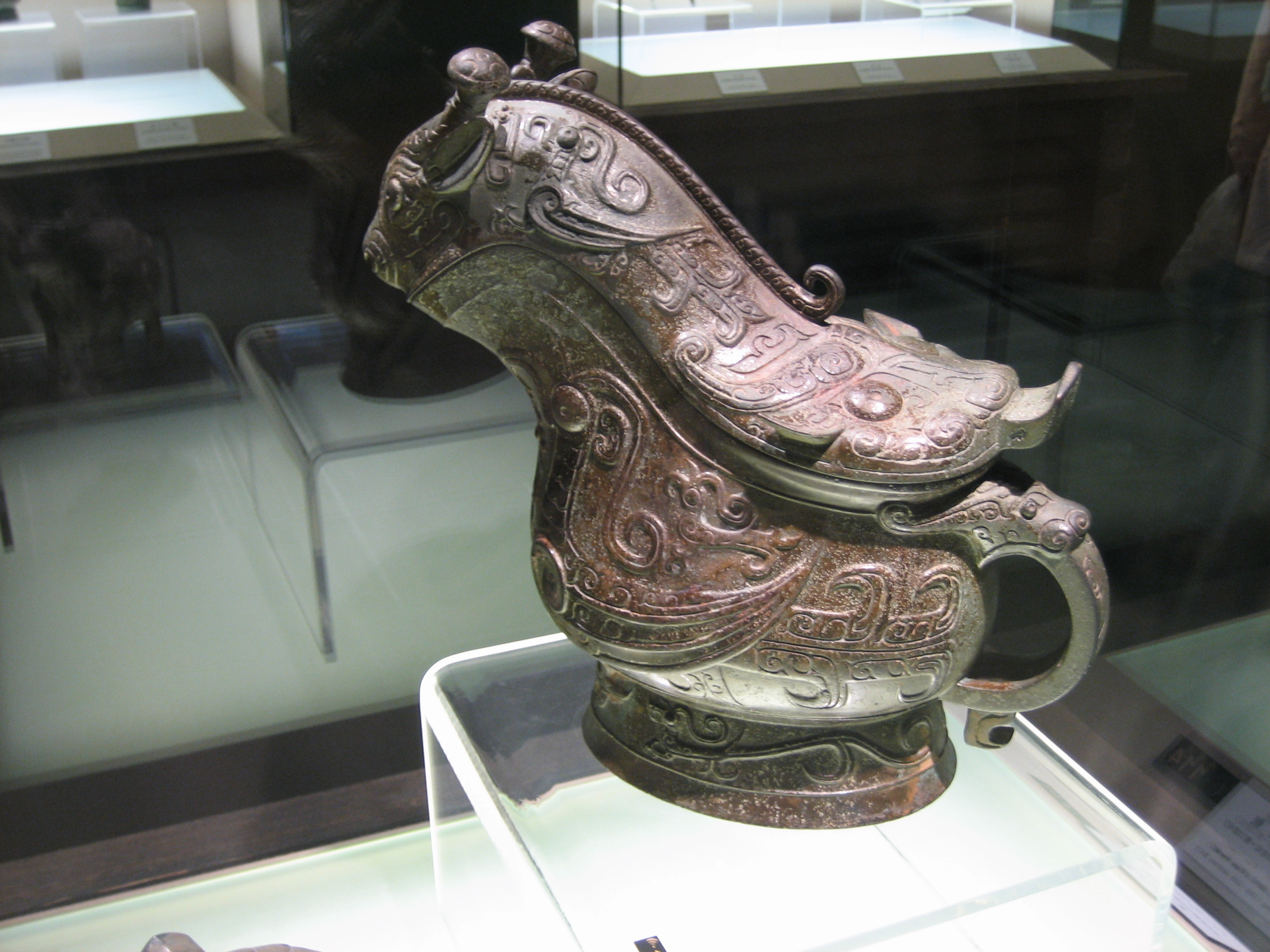 Gong Fu Yi. A bronze animalistic Chinese gong vessel, 13-11 century B.C., late Shang Dynasty, Shanghai Museum. The head has rabbit ears and giraffe horns, and the shine looks like a small dragon in high relief. The back of the cover has the shape of the head of an ox, like the handle that has the same pattern of head of ox. The body has phoenix patterns, and the oval base shows claws of phoenix patterns. Written in chinese : "Made by Fu Yi". Height: 29.5cm Length: 31.5cm Weight: 4.84kg